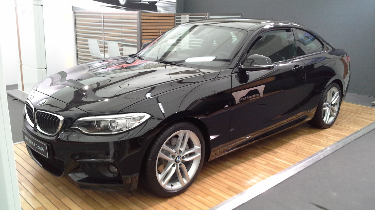 BMW 2-Series F22 photographed at the 2014 Avignon Motor Festival in Avignon, France.